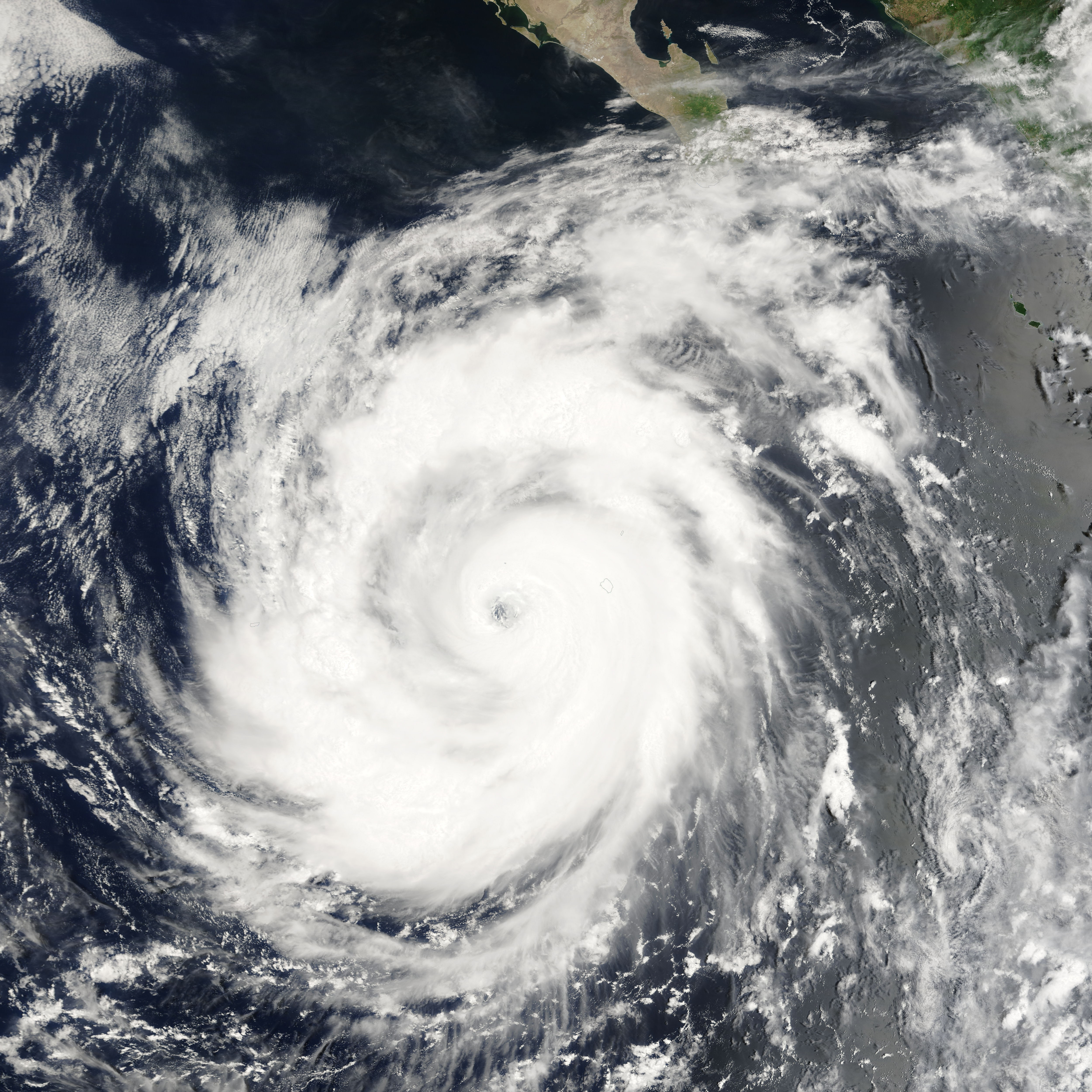 This image shows Hurricane Ileana in the Pacific Ocean as captured by the MODIS instrument on NASA's Terra satellite on August 23. At 1750 UTC, Ileana's maximum sustained winds were 120 mph and its minimum central pressure was 955 mb.